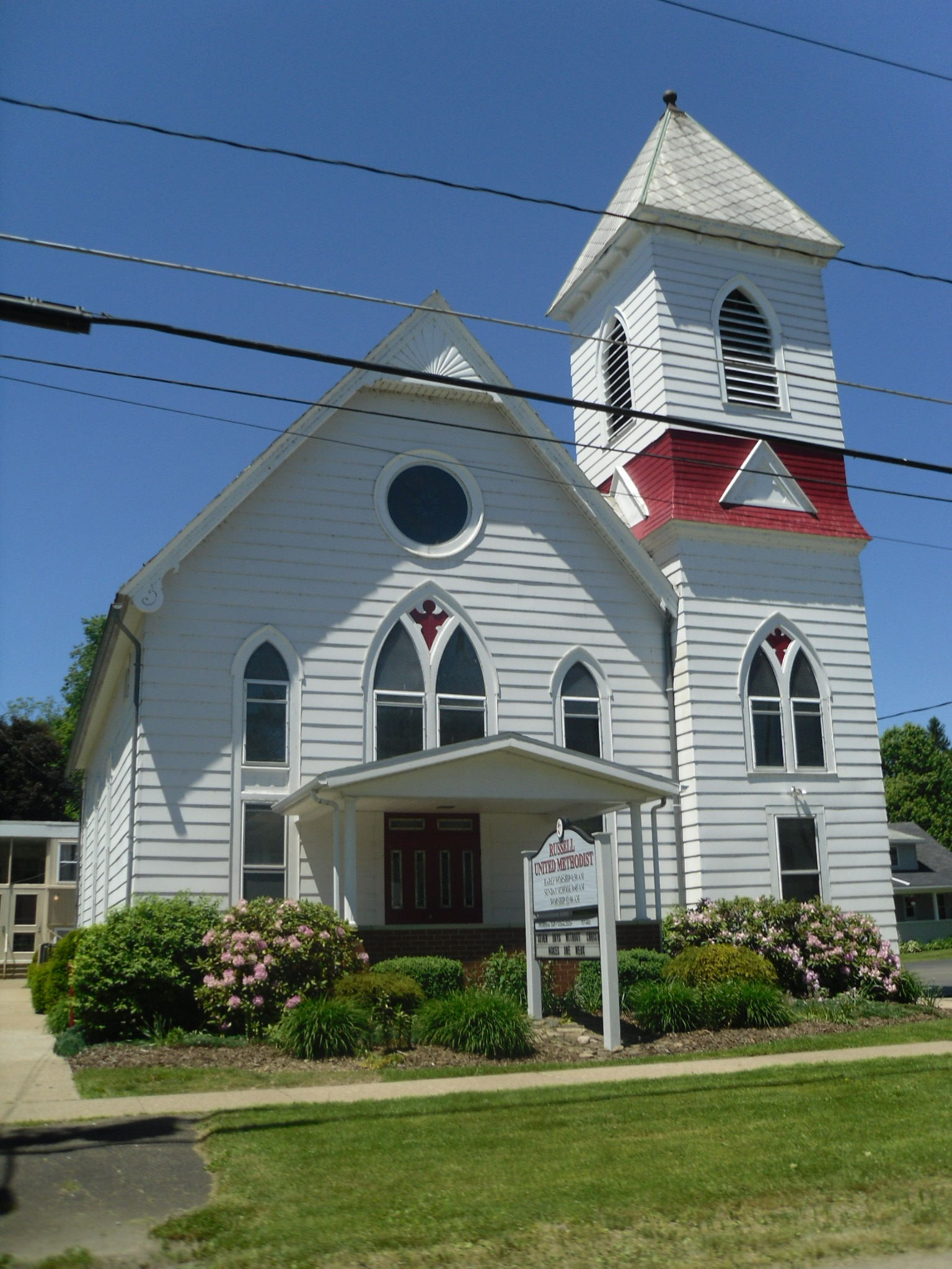 Russell United Methodist Church in Pine Grove Townhip, Warren County, Pennsylvania